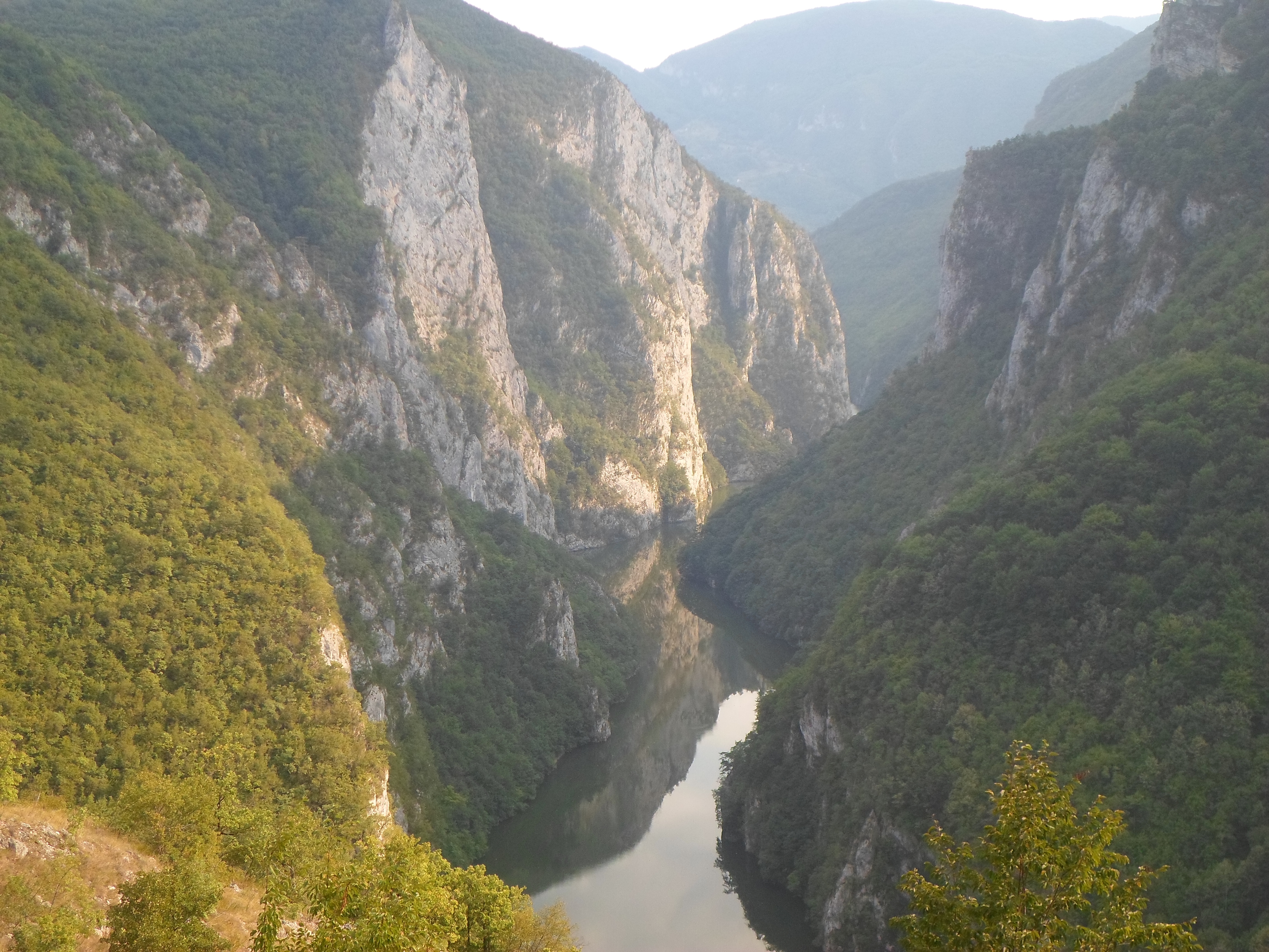 Виогор-Лим This image was uploaded as part of Trace of Soul 2015.